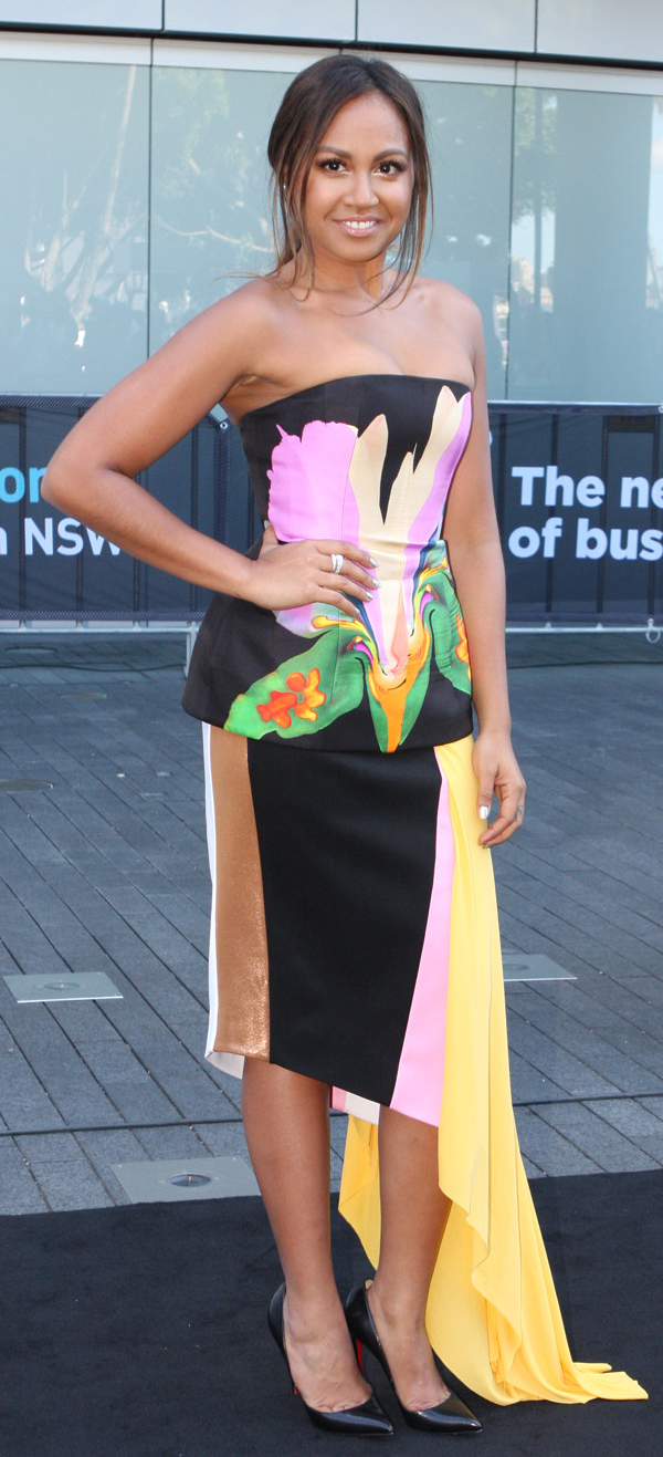 Jessica Mauboy at the ARIA Awards 2013 ceremony, 1 December 2013, Star Event Centre, Sydney